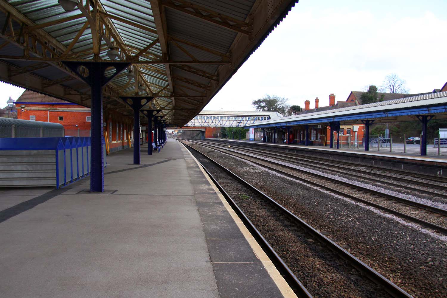 Newbury Station, near to Newbury, West Berkshire, Great Britain.